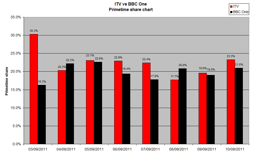 A graph comparing the primetime share between BBC One and ITV1 in the week in which Red or Black? aired.